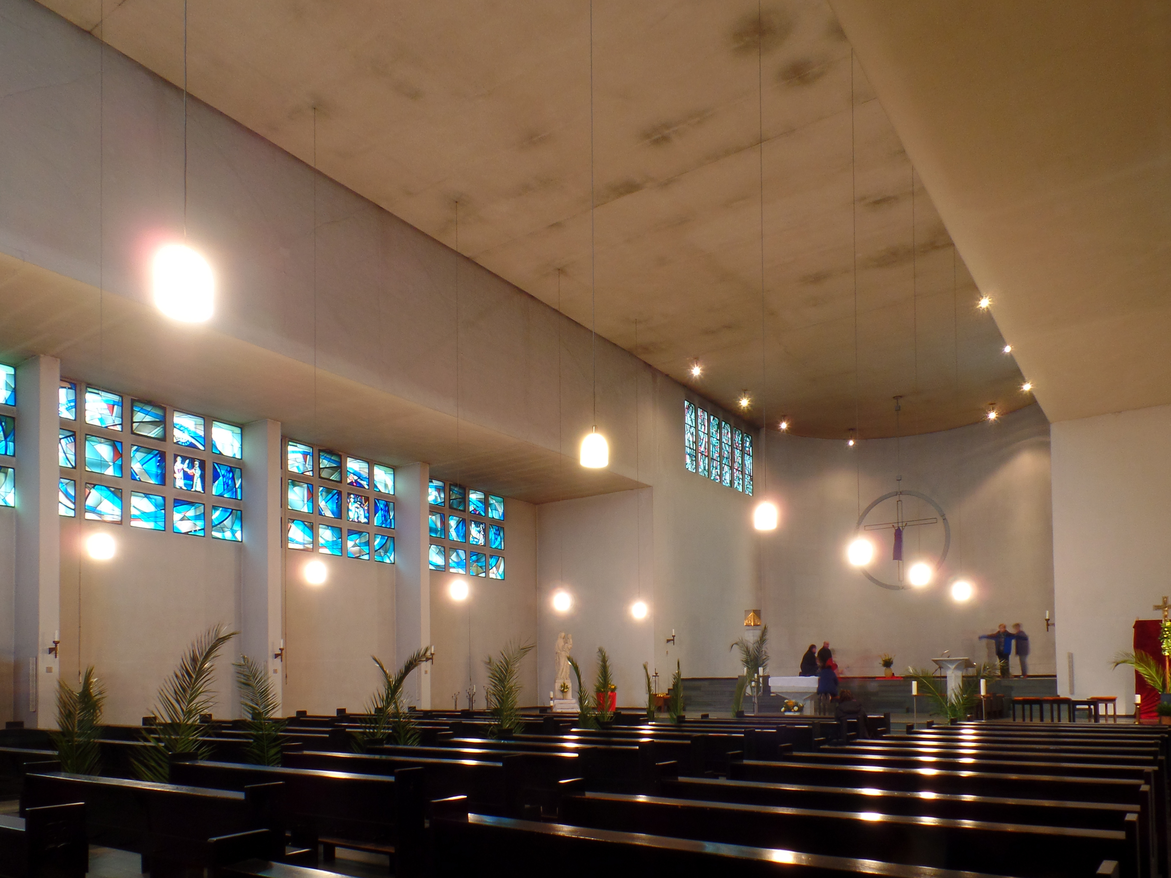 Interior of the Parish Church St. Petrus Canisius in Buchforst/Cologne, Germany.